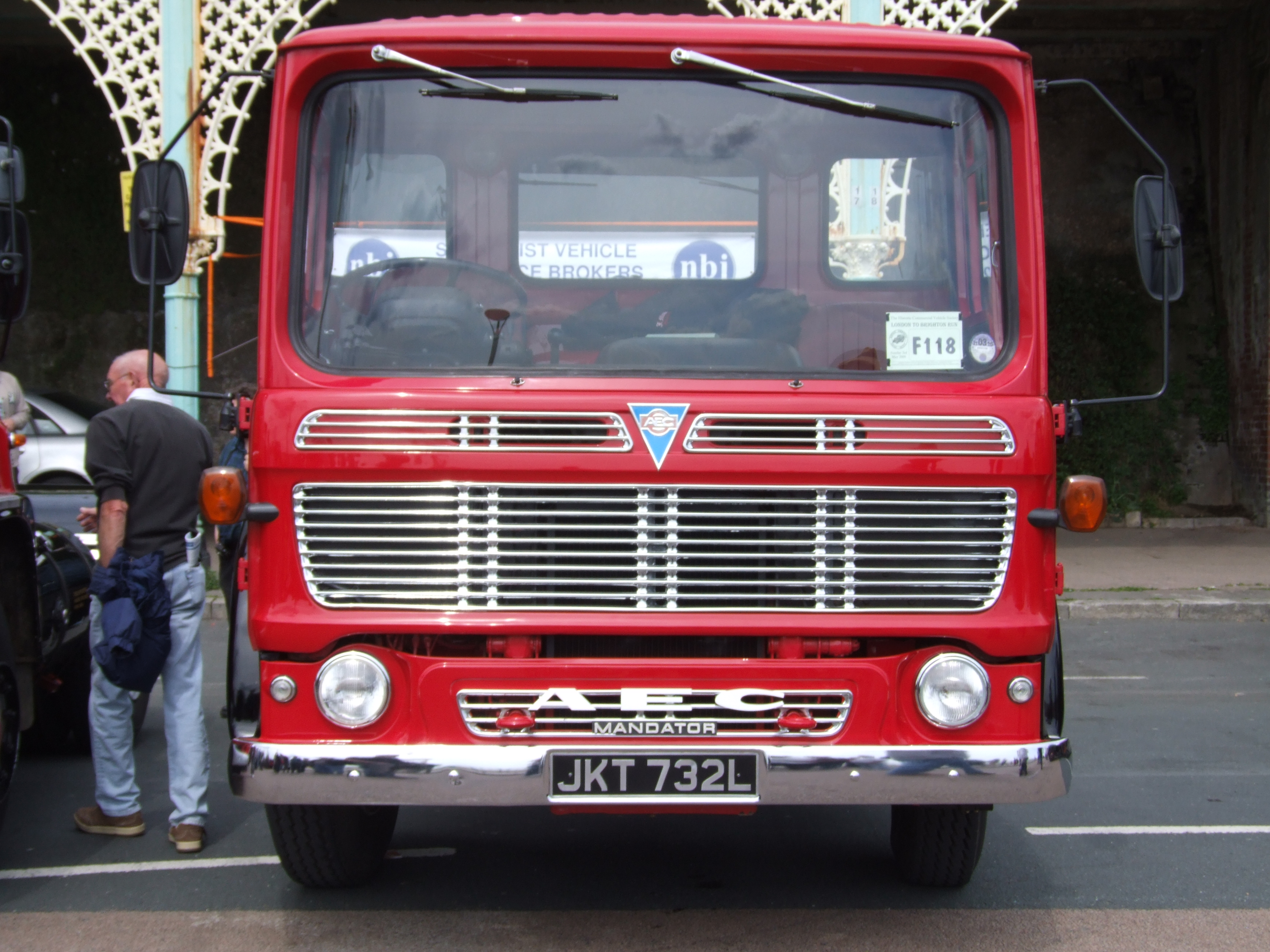 1977 AEC Mandator articulated lorry